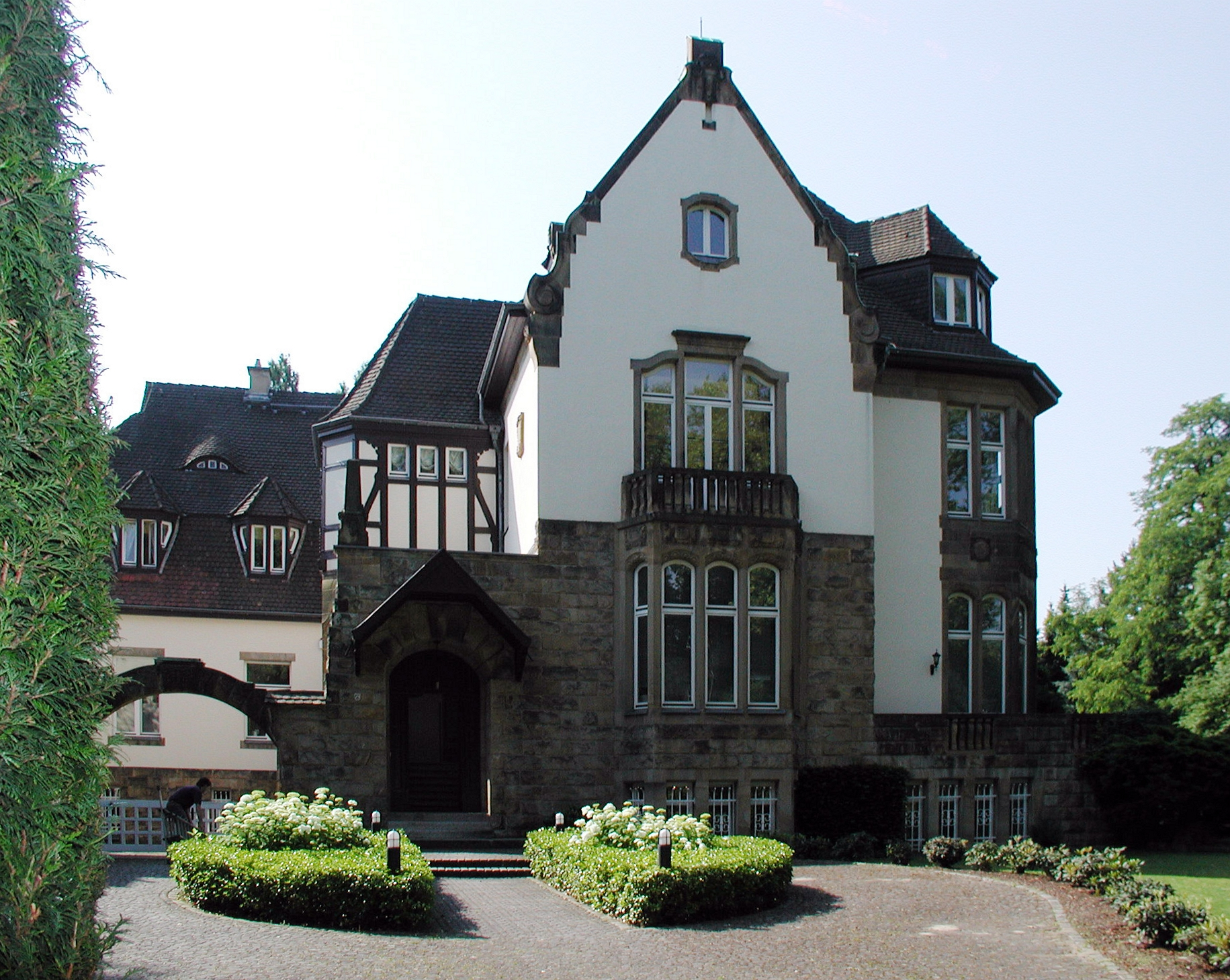 Cologne, Bayenthalgürtel